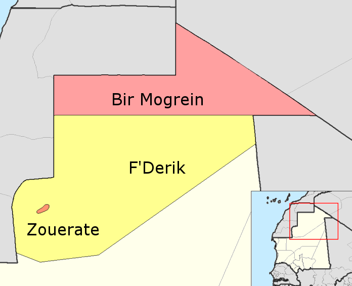 Using GIMP, I updated User:Rarelibra's original map (Image:Tiris_Zemmour_departments.png) w/some new, bigger labels. - User:McTrixie